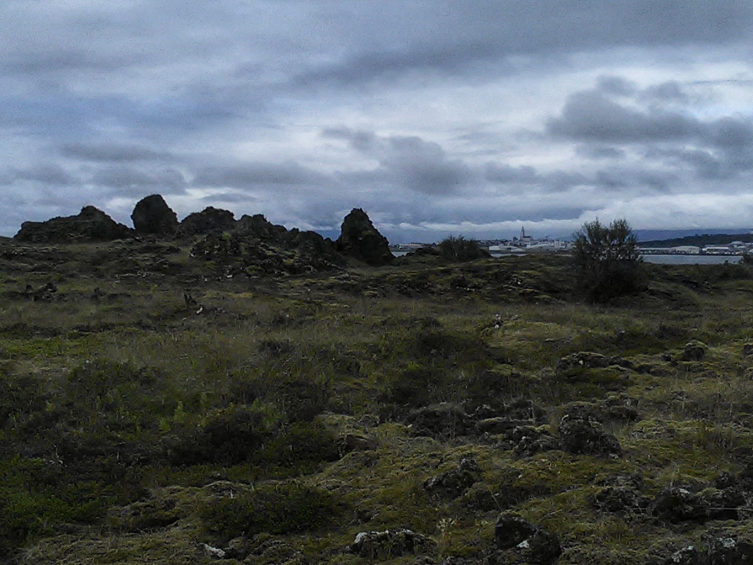 Galgahraun, near Reykjavík, Iceland